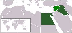 Map of the United Arab Republic, a former planned federation between Egypt, Iraq and Syria in 1963.